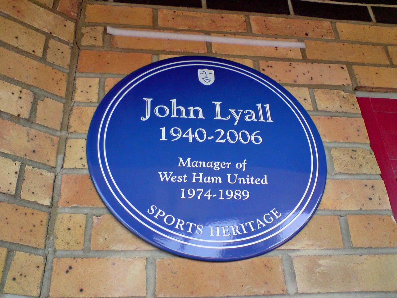 Blue Plaque at West Ham's Boleyn Ground commemorating John Lyall